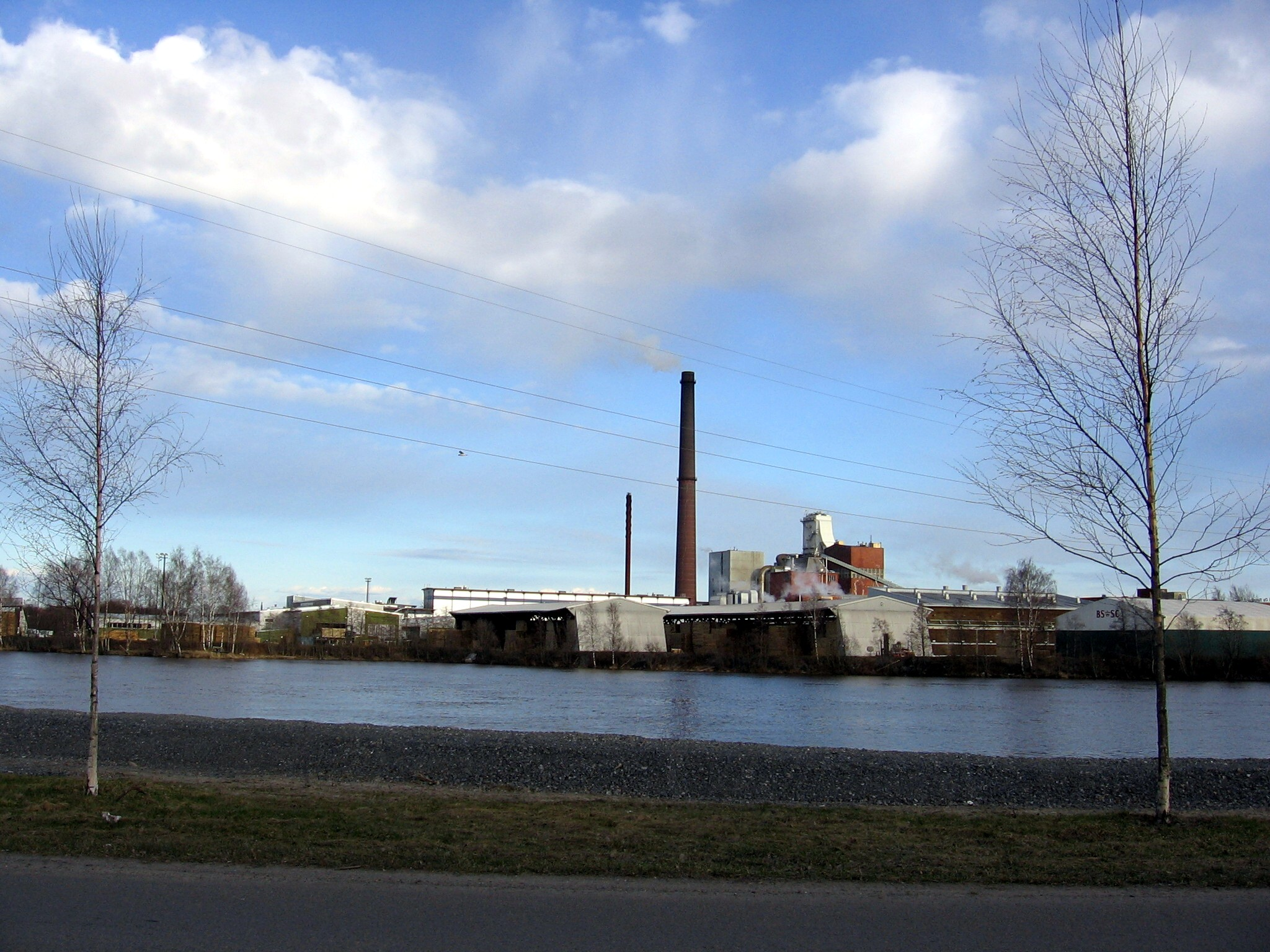 Pori paper mill